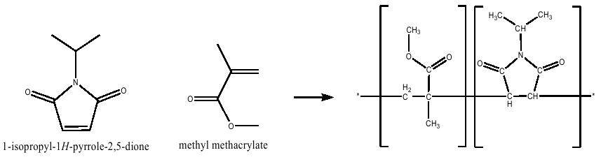 Molecular structure of polymethyl methacrylate-co-isopropylmaleimide